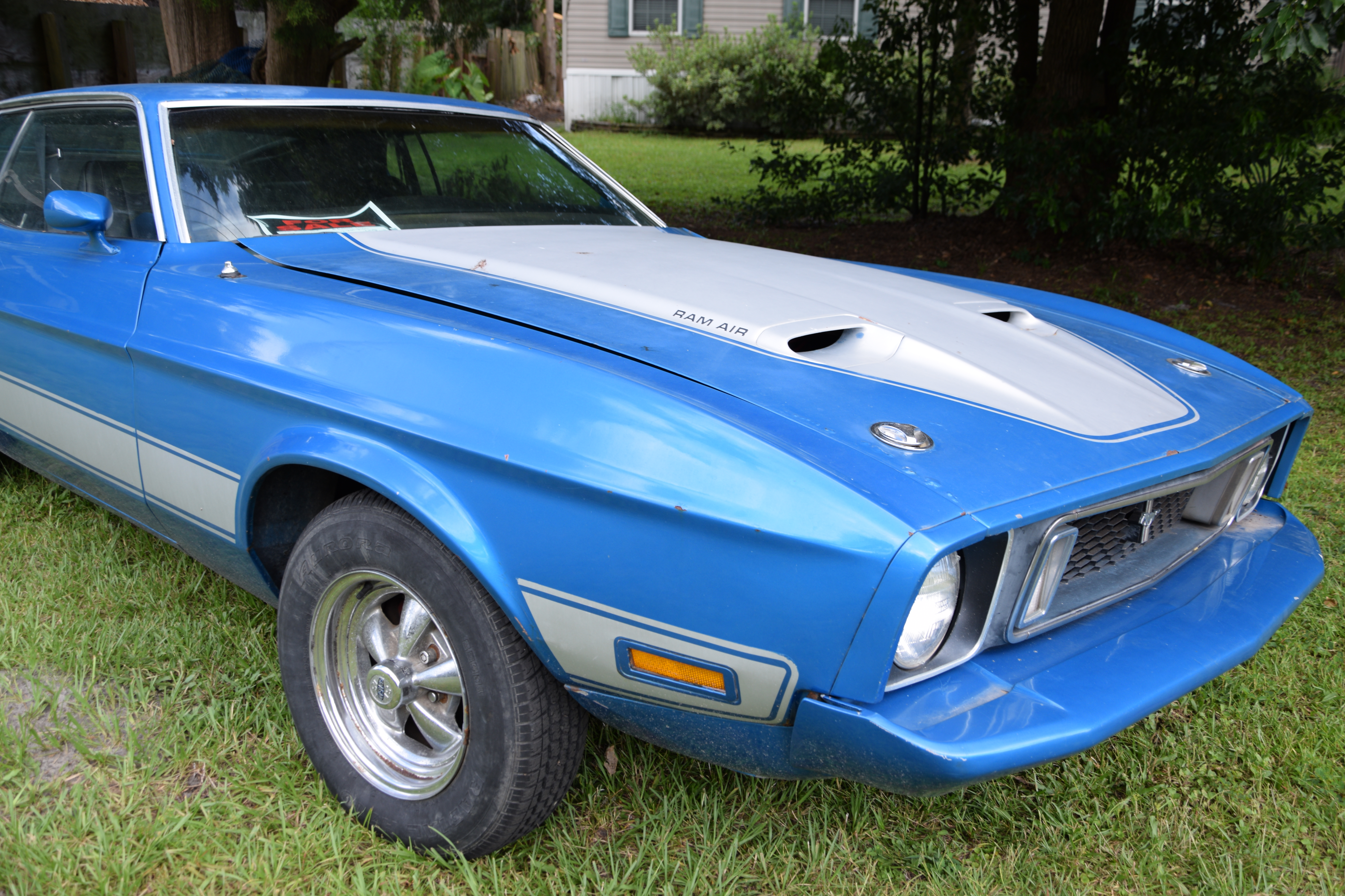 Ram air intakes on a 1973 Mustang Mach 1